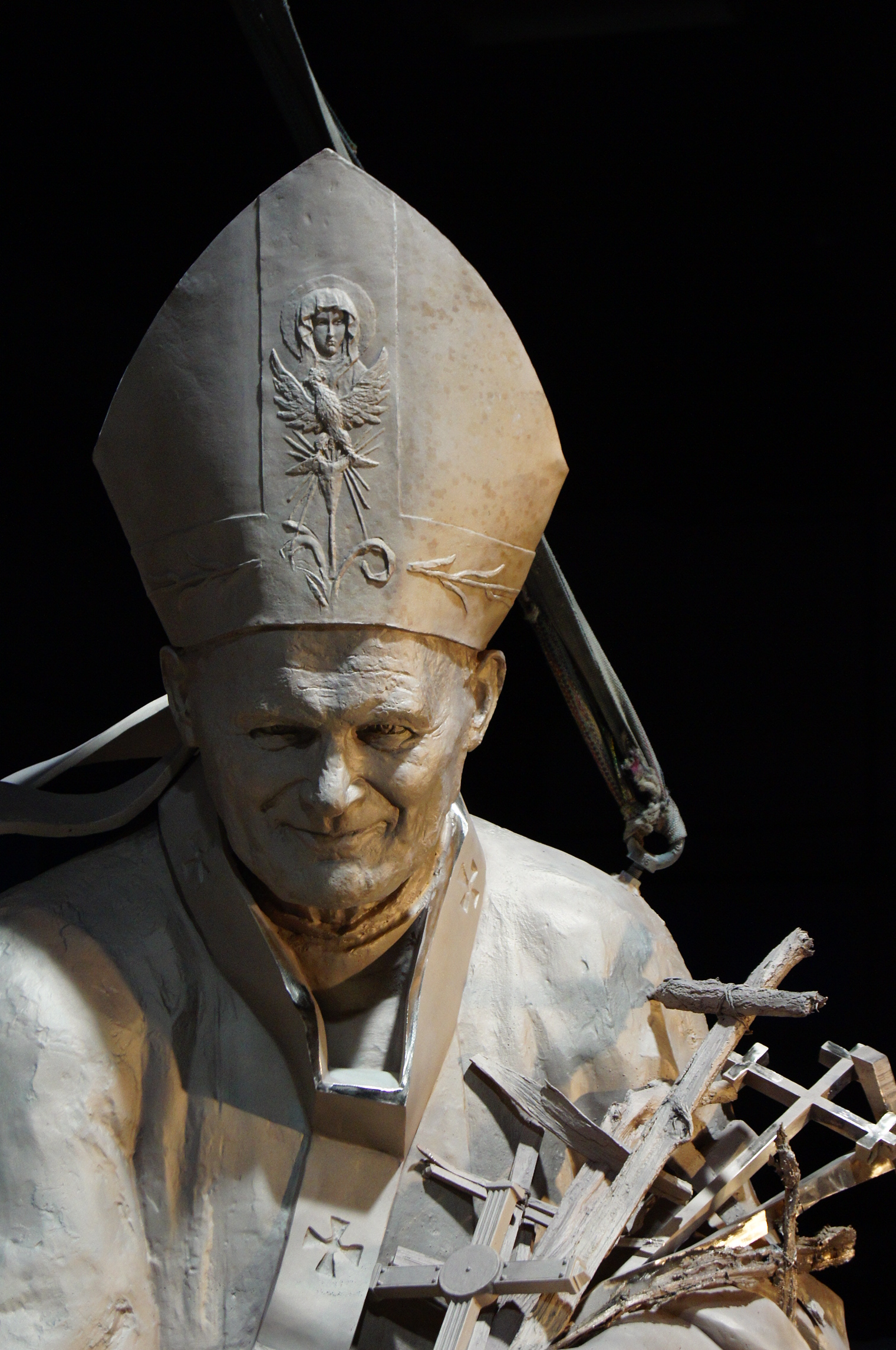 Pope John Paul II in Wroclaw, Poland by Grażyna Jaskierską & Maciej Albrzykowski